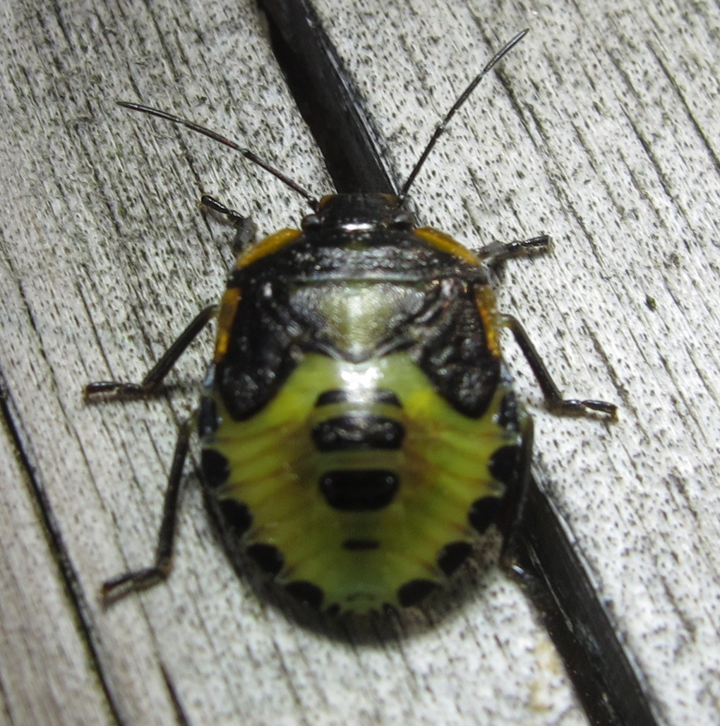 Final instar Nymph Hudson New Hampshire USA - Not Troilus luridus, but probably some native Nearctic species. Maybe try BugGuide for an ID :o)